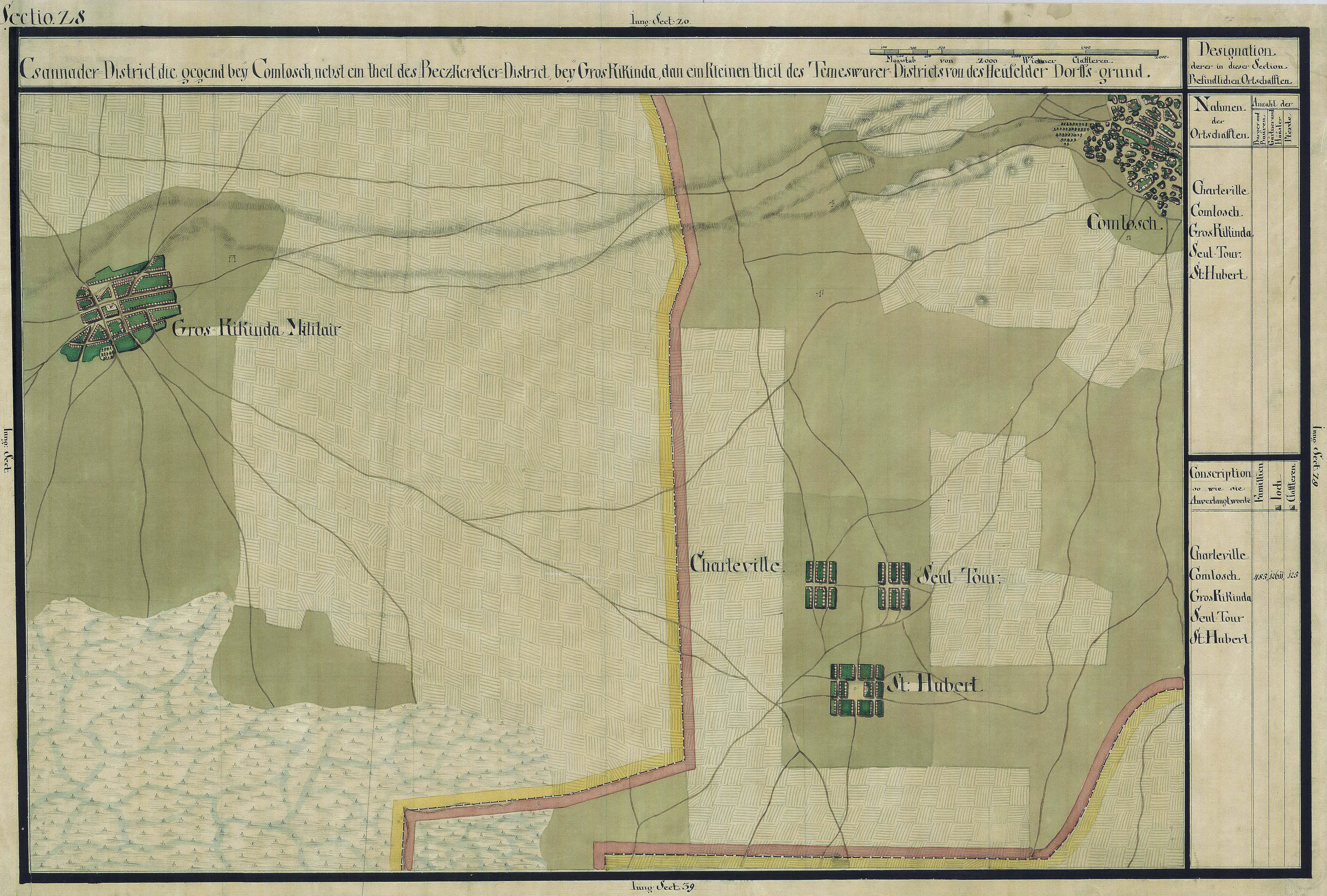 The Banat region in the cadastral maps: Josephinische Landesaufnahme, 1769-72. Josephinische Landaufnahme pg028